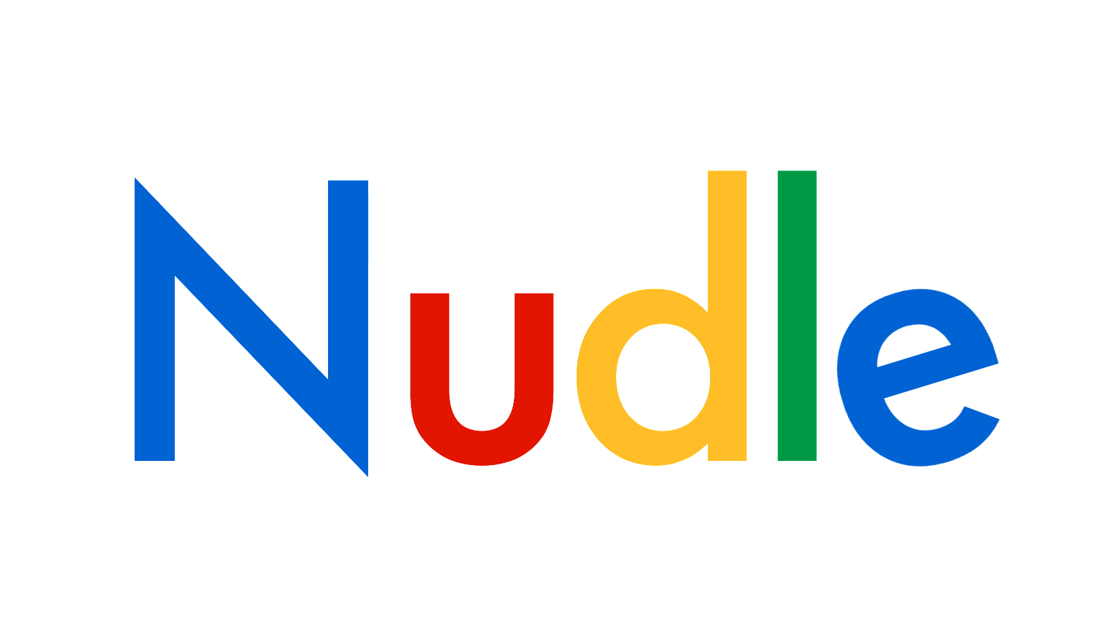 Nudle's logo.